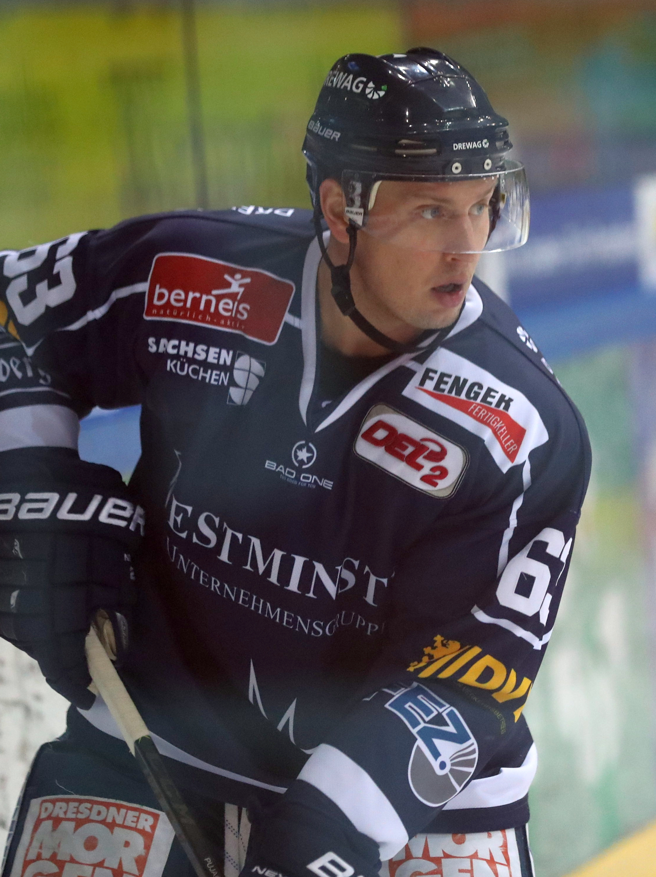 DEL2, Season 2018/19, Main round, 36th match day: Dresdner Eislöwen vs. ESV Kaufbeuren 6:3 (3:1; 1:2; 2:0)